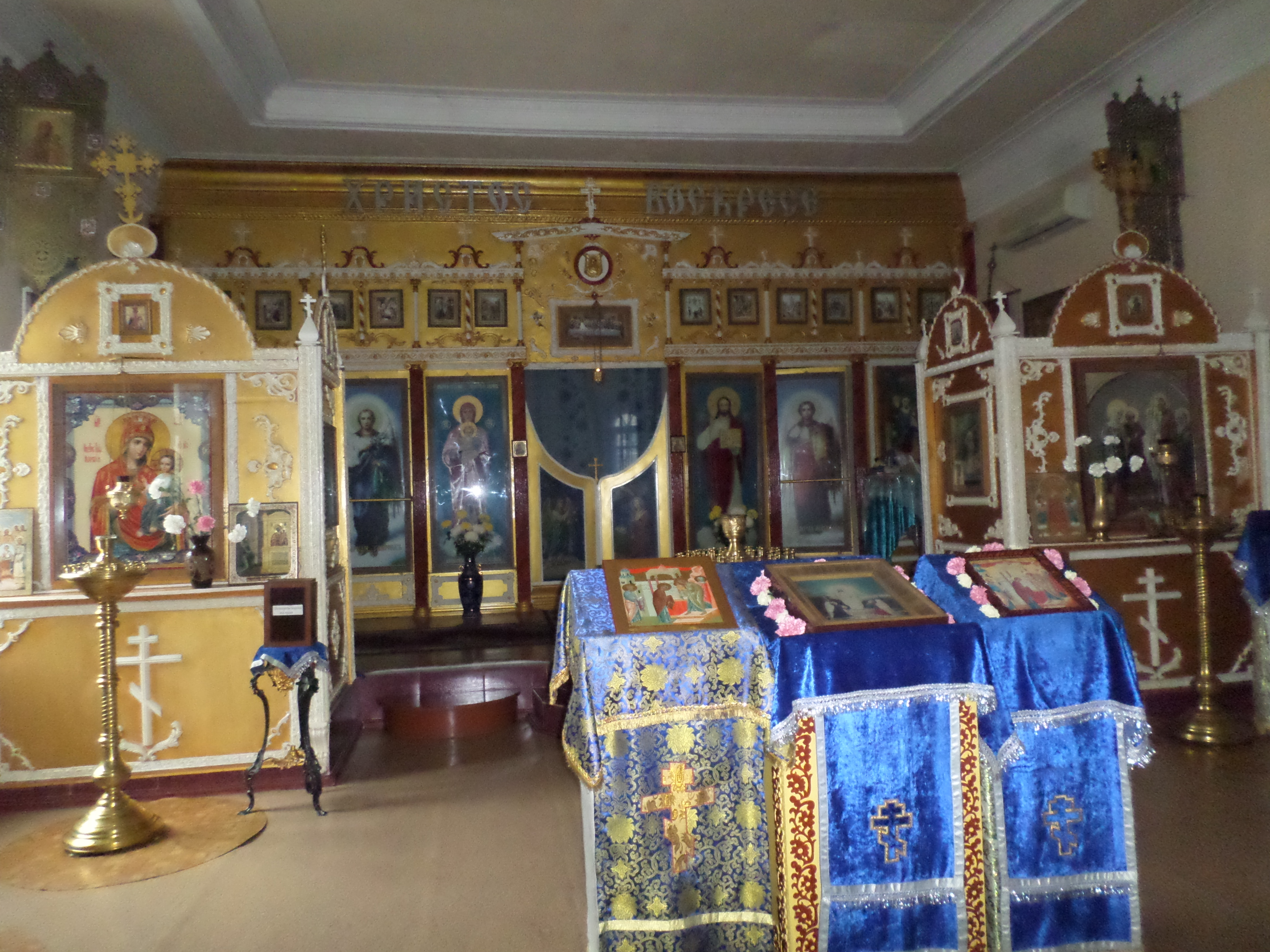 Church in Bekobod